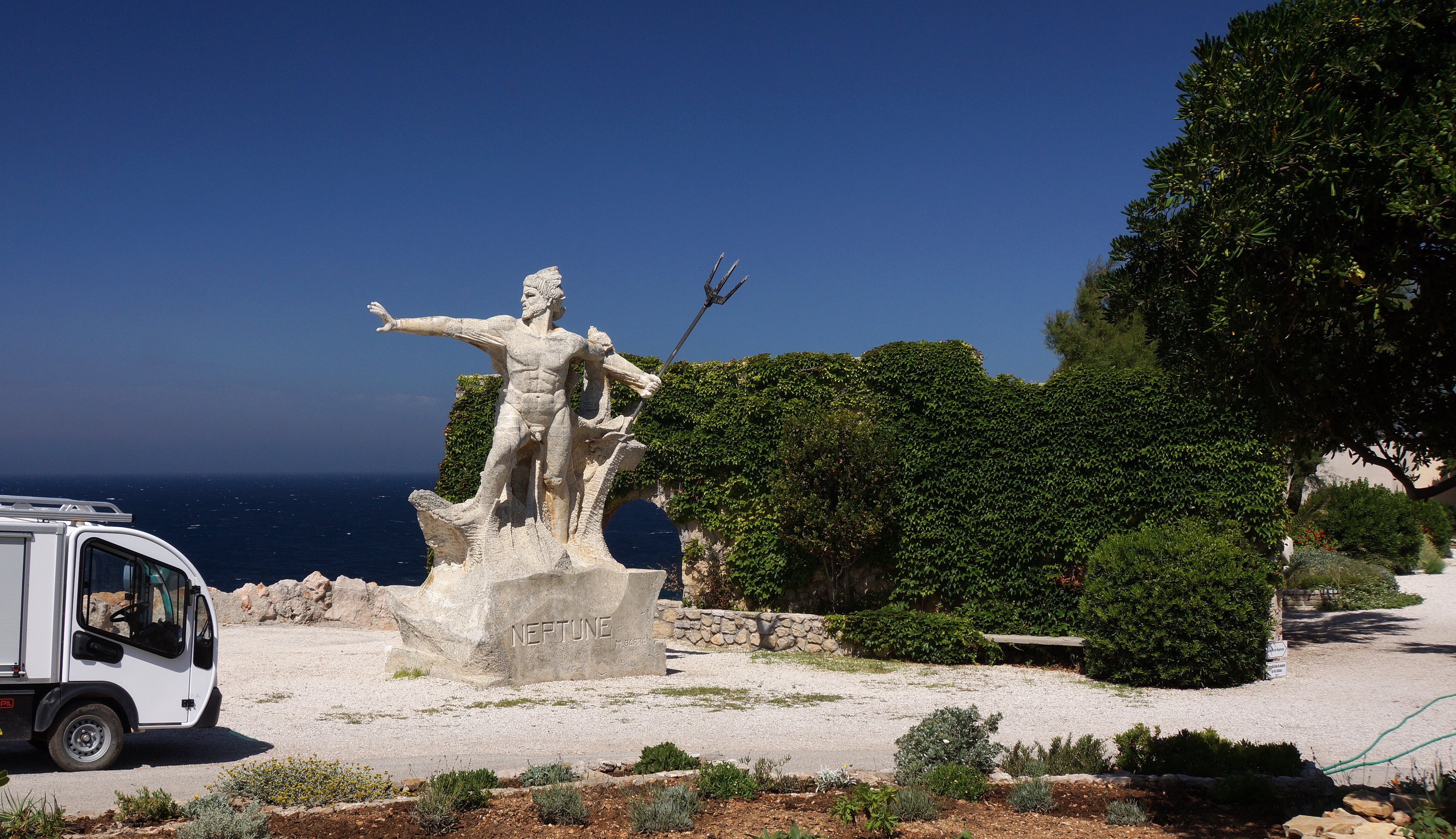 Neptune statue, Bendor island, Bandol, PACA, France